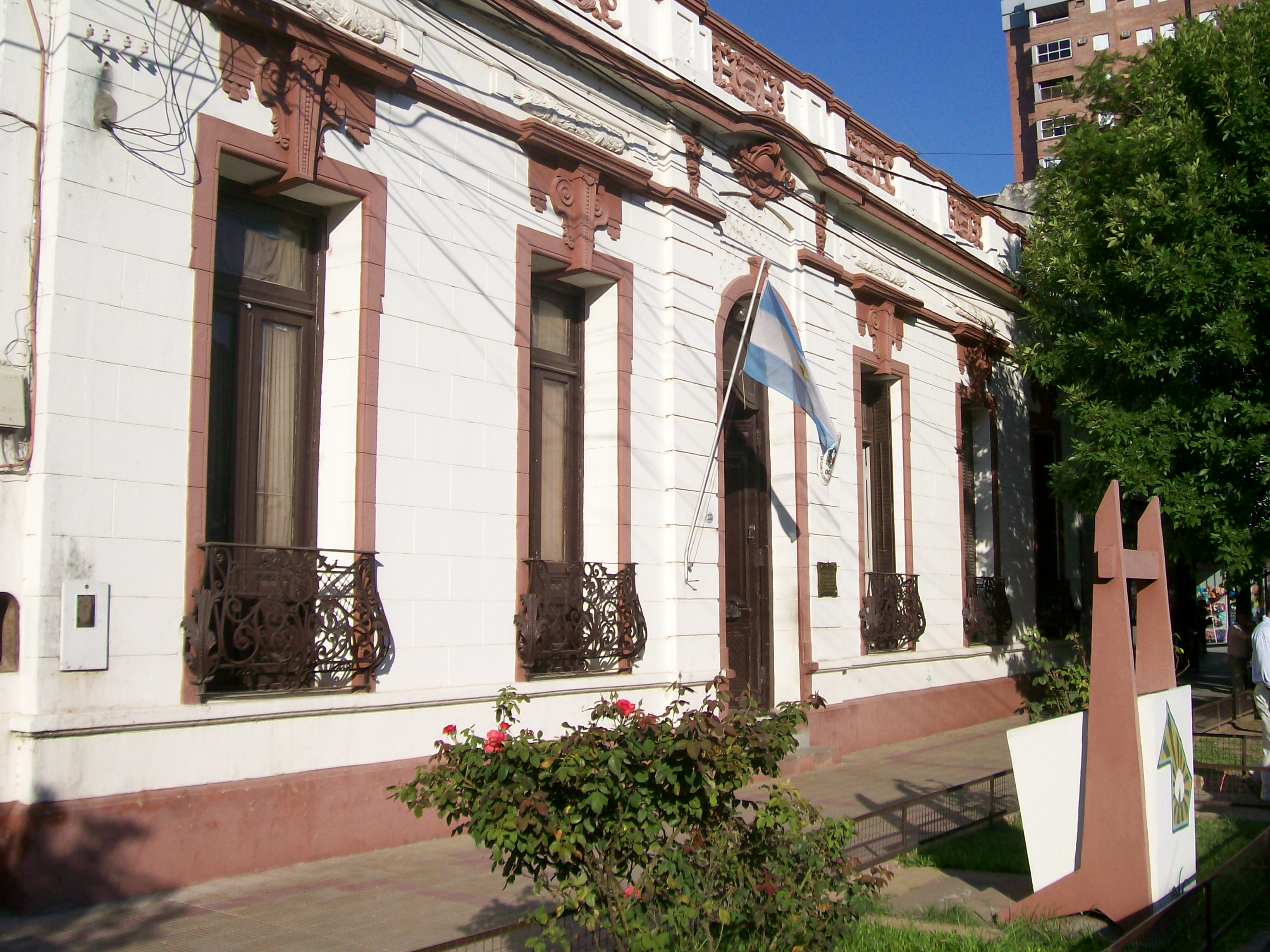 Chaco Province Police's Museum in Resistencia, Chaco, Argentina. This house was the first provincial government house.